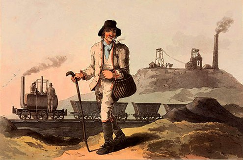 “The Collier”, in George Walker The costume of Yorkshire, Plate 3, by Robinson & Son, Leeds, Augt., 1813. First painting of a locomotive. Watercolour of George Walker representing the Blenkinsop's locomotive hauling coal wagons at the Middleton Colliery